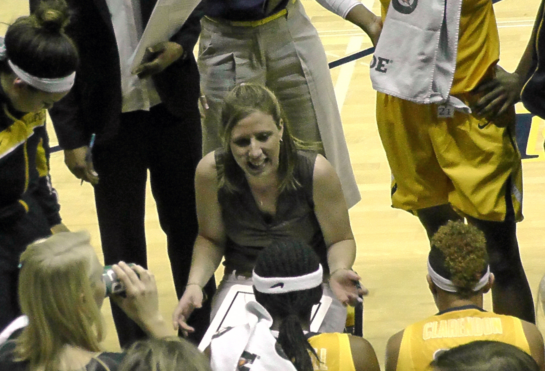 Lindsay Gottlieb